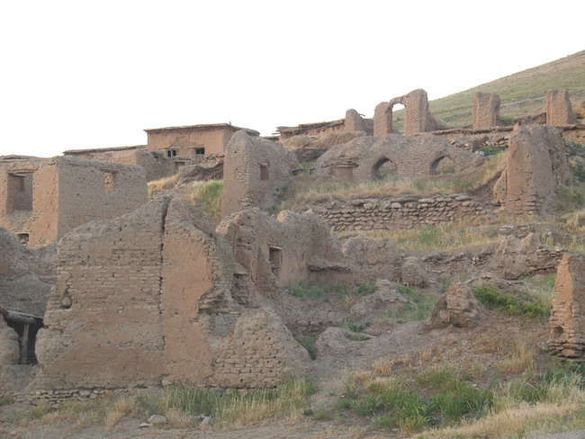 Tawwqran village in - Saqqez - Kurdistan - Iran